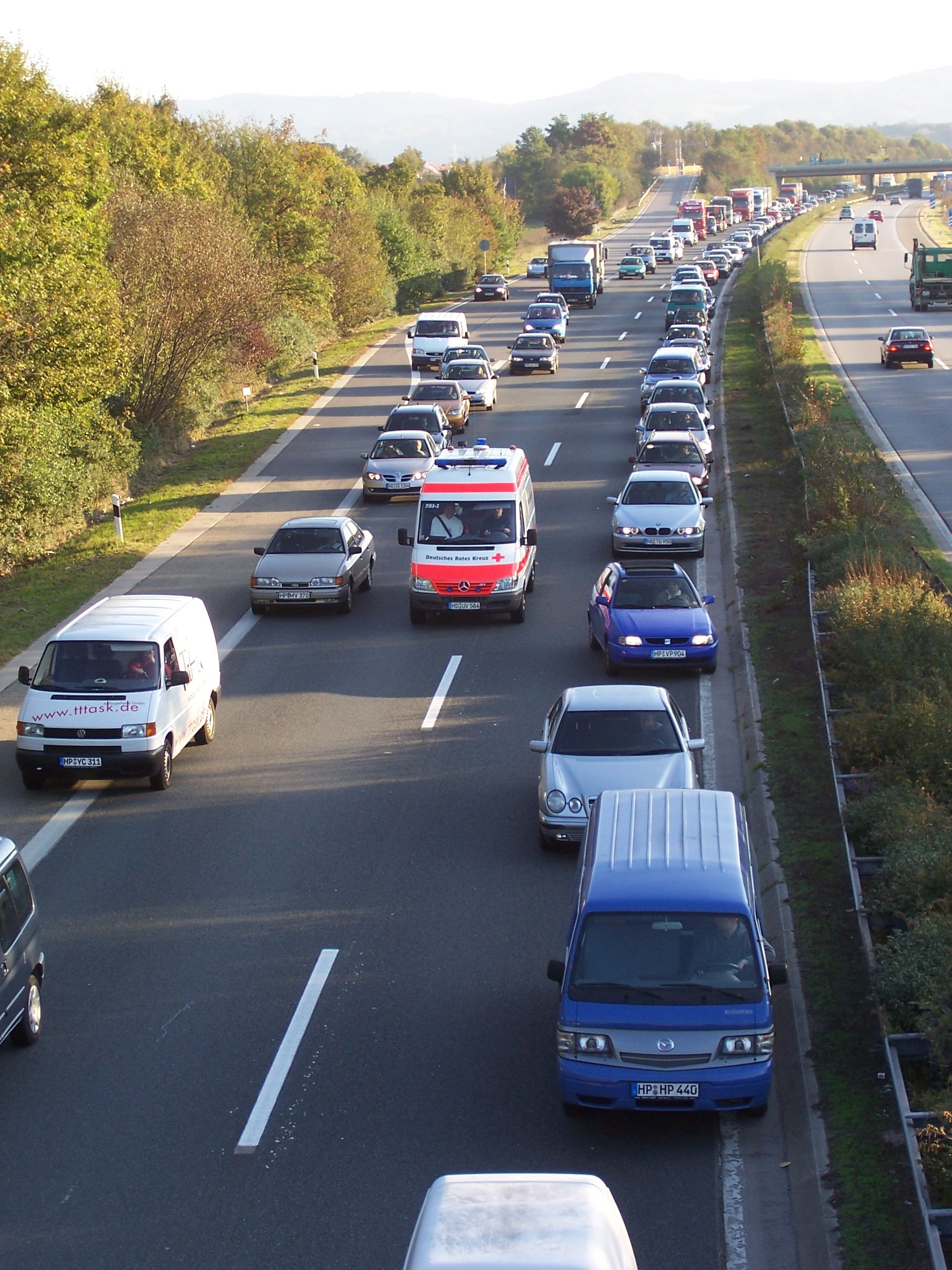 A traffic jam caused by a car accident at Bundesautobahn 659 near Viernheim, Germany. Formation of an "emergency corridor" for a passing rescue service vehicle. A Mazda E2200 in the right foreground.